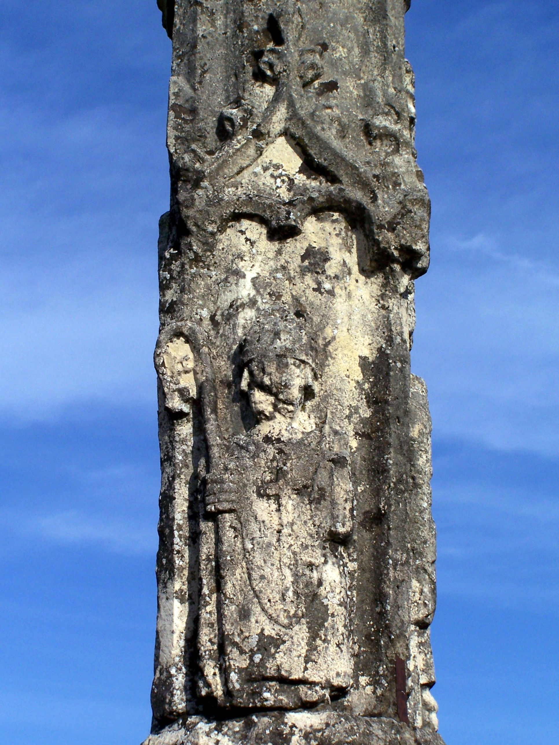 Churchyard cross of Mauriac (Gironde, France)